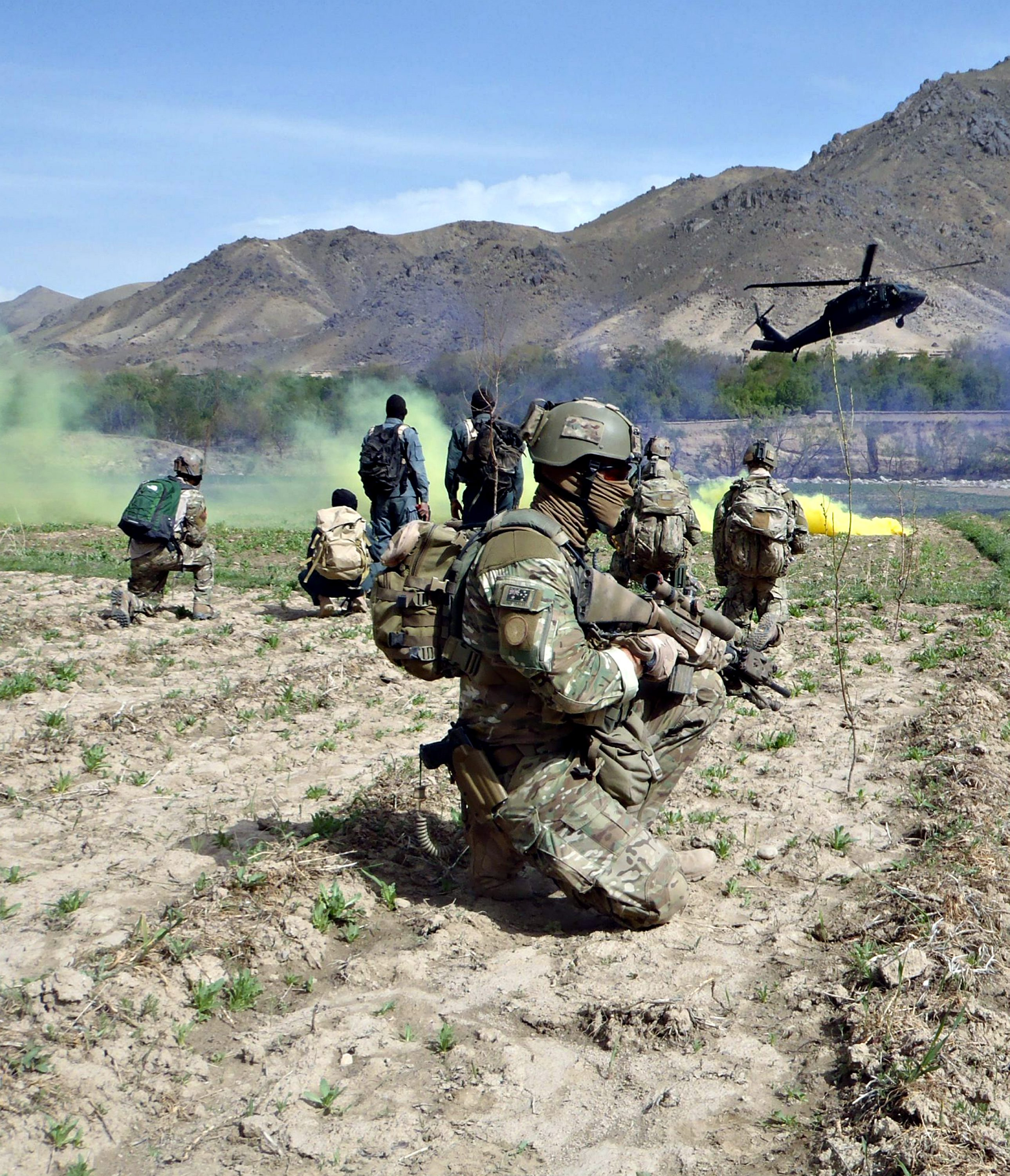 Special Forces soldiers and Afghan police await an extraction in Uruzgan. Mid: Afghan National Police and their Australian Special Forces partners have further degraded the insurgent networks operating in central Uruzgan by capturing three key leaders in separate missions. Members of the Provincial Response Company Uruzgan (PRC-U) and the Special Operations Task Group (SOTG) detained the objectives in Deh Rafshan and Baluchi during targeting operations in May. Deep: The Special Operations Task Group is deployed to southern Afghanistan to conduct population-centric, security and counter network operations. SOTG support the Afghan National Police’s Provincial Response Company in Uruzgan and northern Kandahar. SOTG includes members from the Special Air Service Regiment (SASR), 1st and 2nd Commando Regiments, the Incident Response Regiment, Special Operations Logistic Squadron and supporting units.